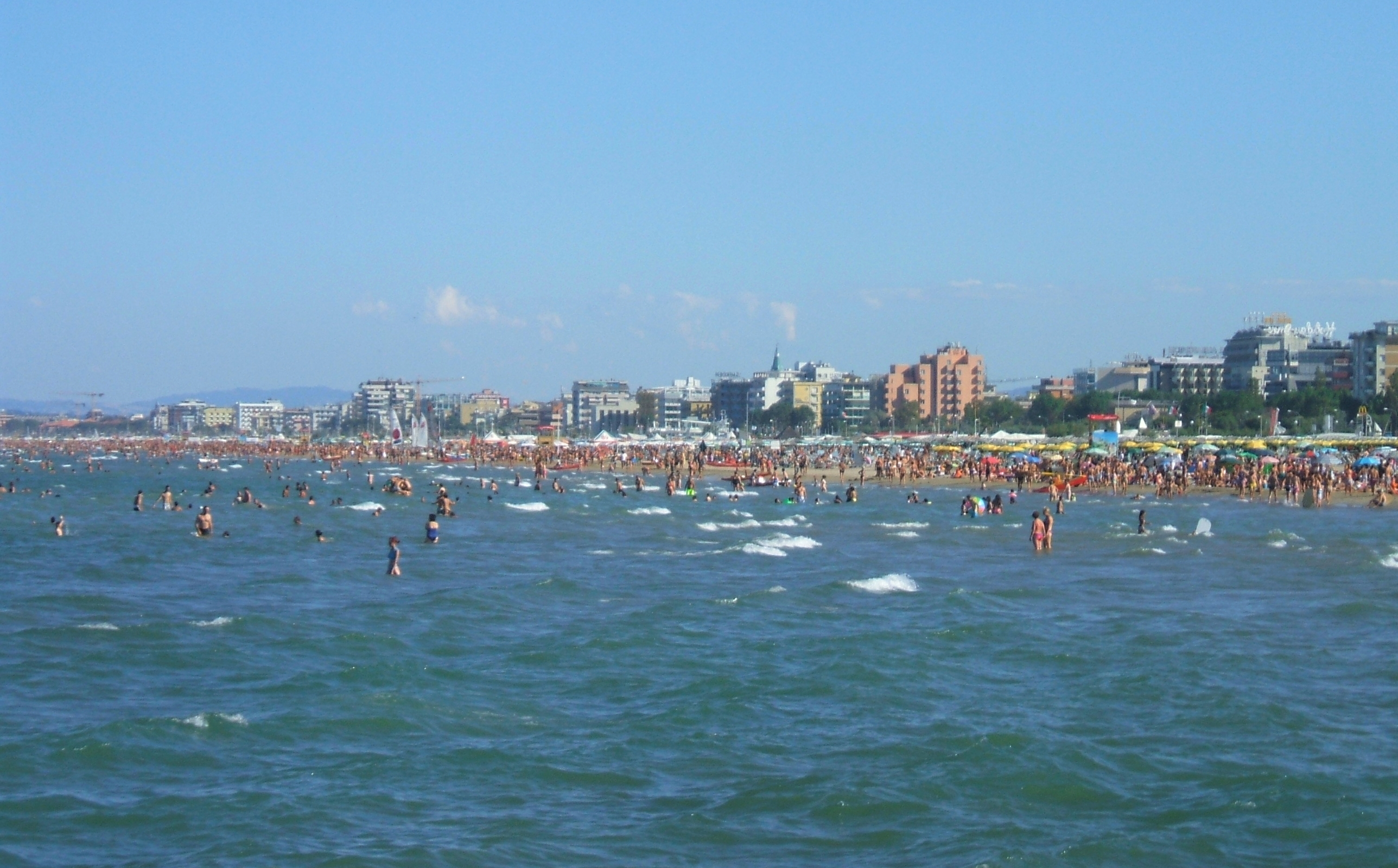 View of Rimini waterfront from the harbour